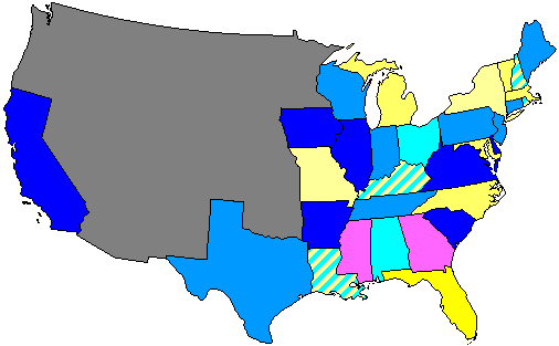 Summary of party control of U.S. house seats in the 32nd United States Congress following election. Stripes indicate a tie between two or more parties. Legend: 80.1-100% Democratic seat majority 60.1-80% Democratic seat majority 60% or less Democratic seat plurality 60% or less Whig seat plurality 60.1-80% Whig seat majority 80.1-100% Whig seat majority 60.1-80% Unionist seat majority